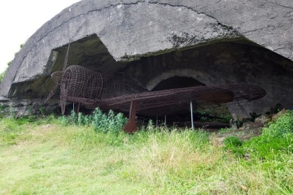 콘크리트 격납고가 20기 정도 있음